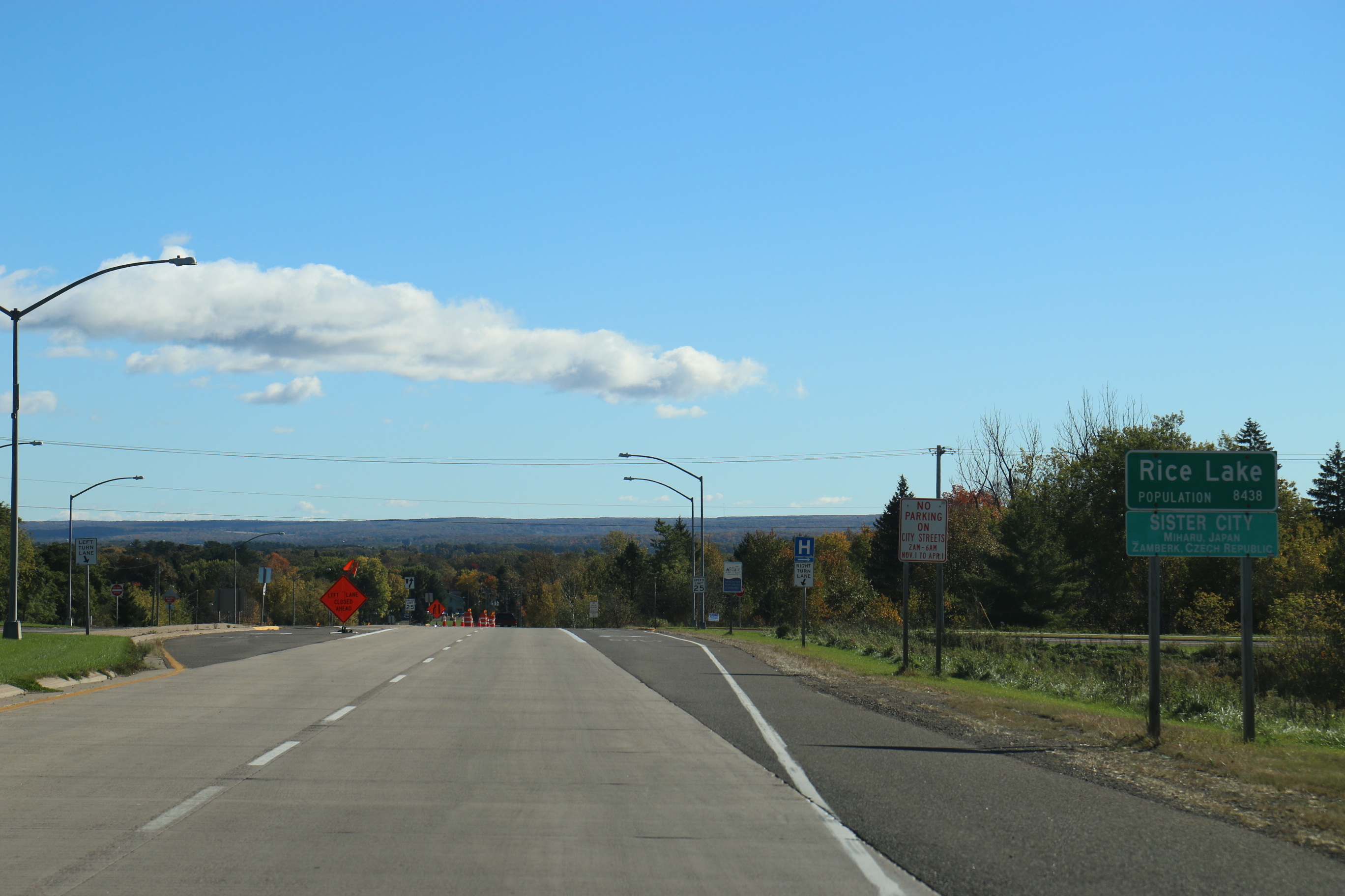 Looking east at the sign for Rice Lake, Wisconsin on WIS48.